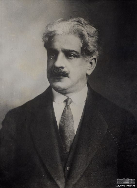 Oswaldo Cruz, Brazilian physician and sanitarist, founder of Instituto Oswaldo Cruz in Rio de Janeiro.